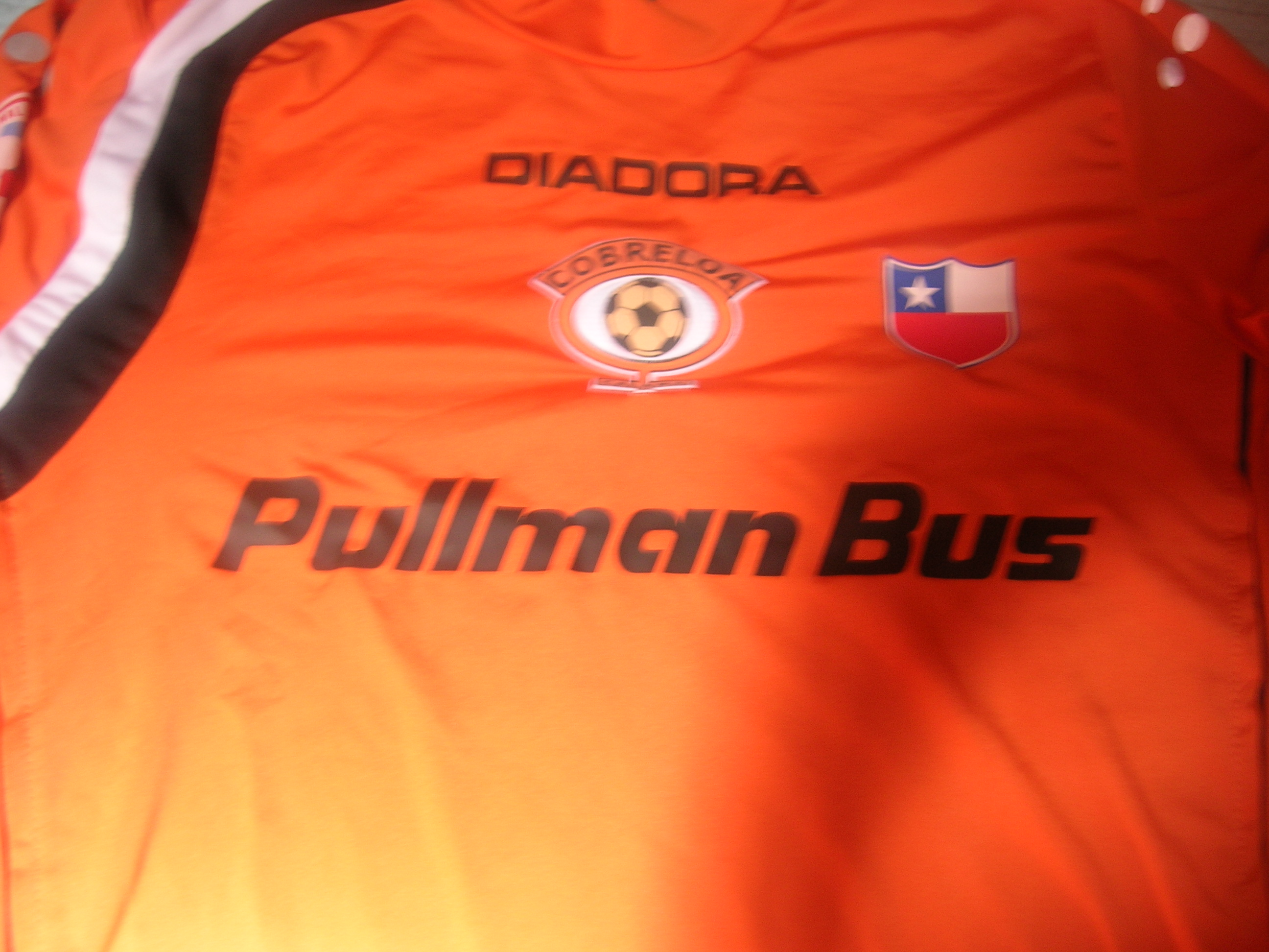 Cobreloa Kit 2005